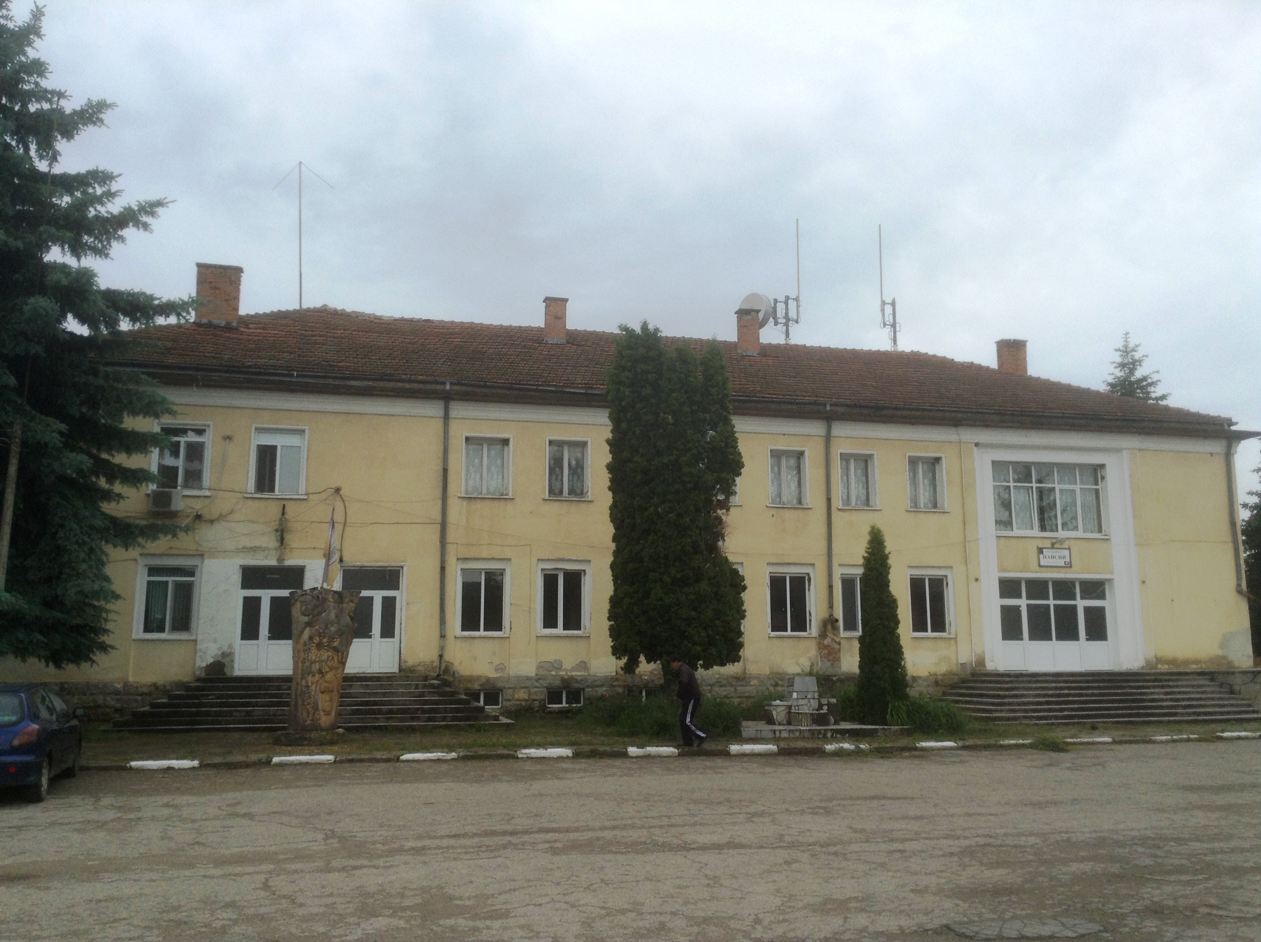 Kostandenetz village lycaeum